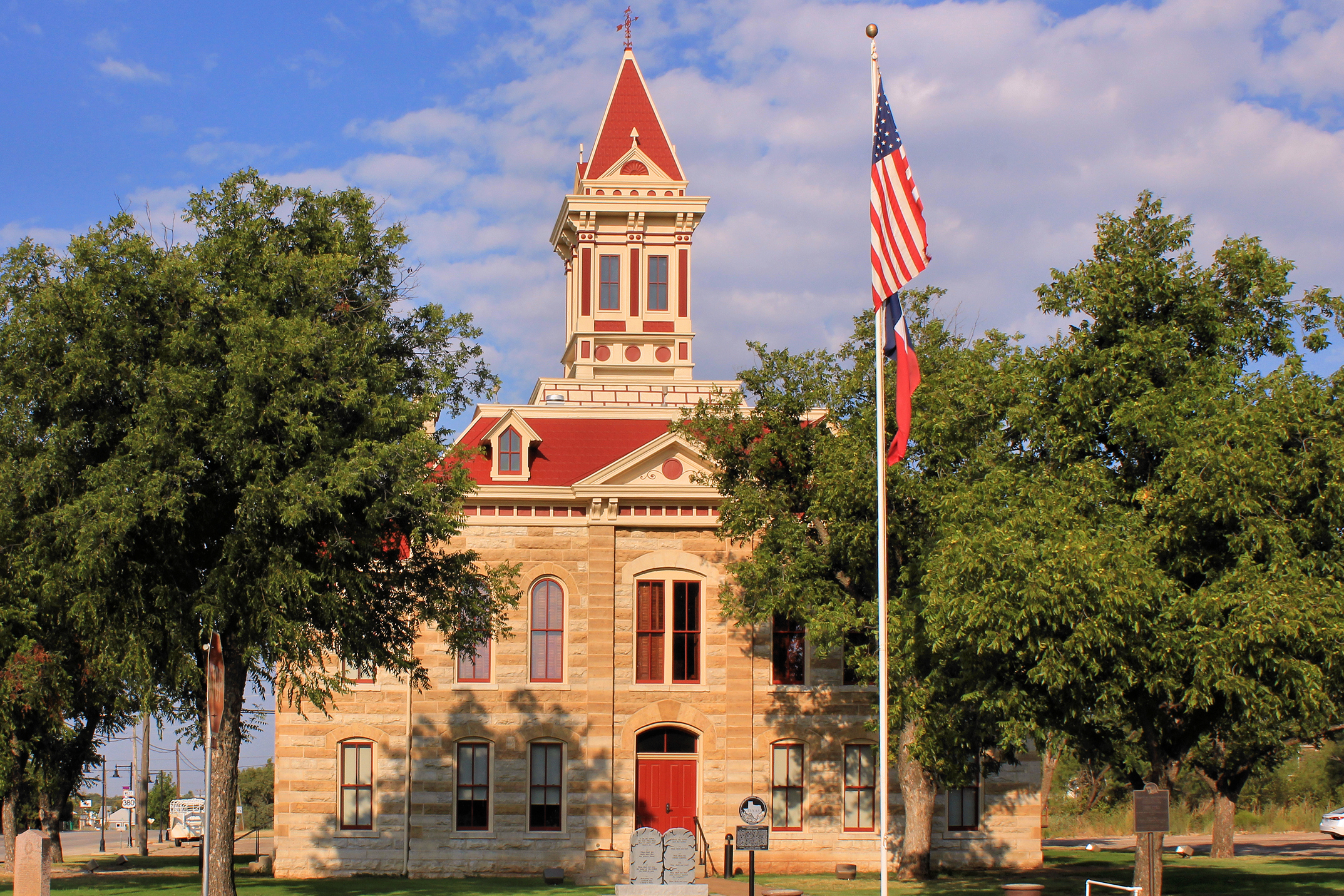 The Throckmorton County, Texas Courthouse in Throckmorton, Texas, United States. The 1890 courthouse was listed on the National Register of Historic Places on August 10, 1978 and designated a Recorded Texas Historic Landmark in 2008.